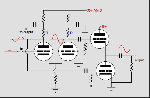 williamson1